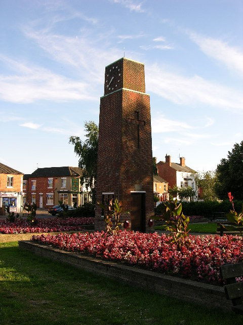 British Legion Memorial , New Bradwell, Milton Keynes. Dedicated in 1962.